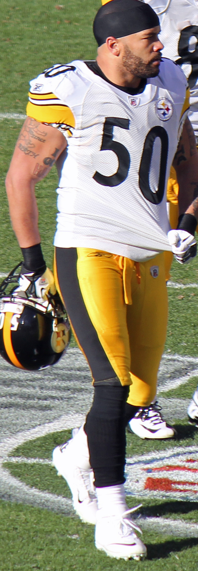 Larry Foote, a player on the National Football League.